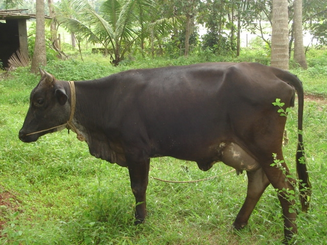 Joby, Photo's from Joseph's Camara